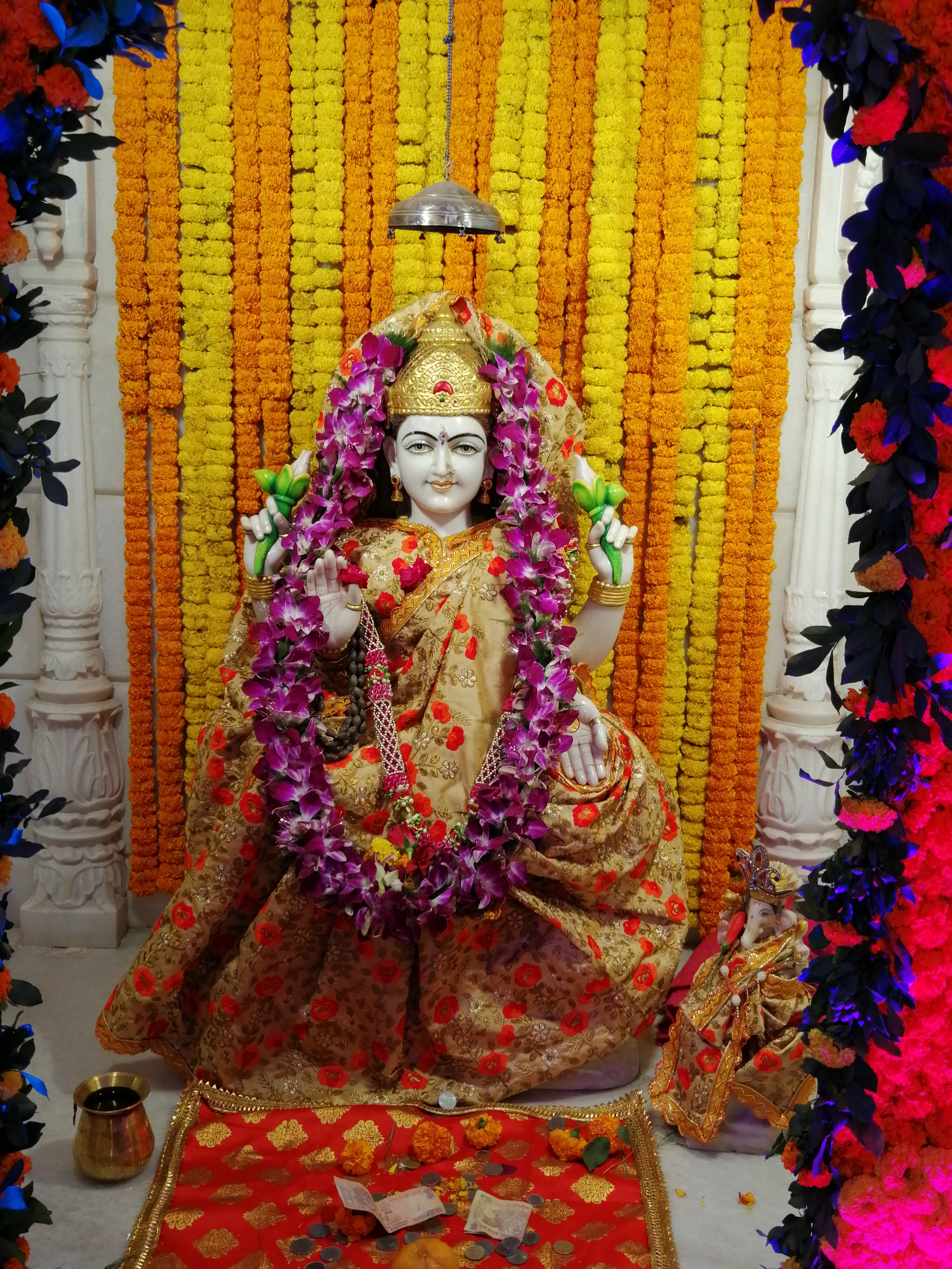 Shree Lakshmiji 01.01.2019